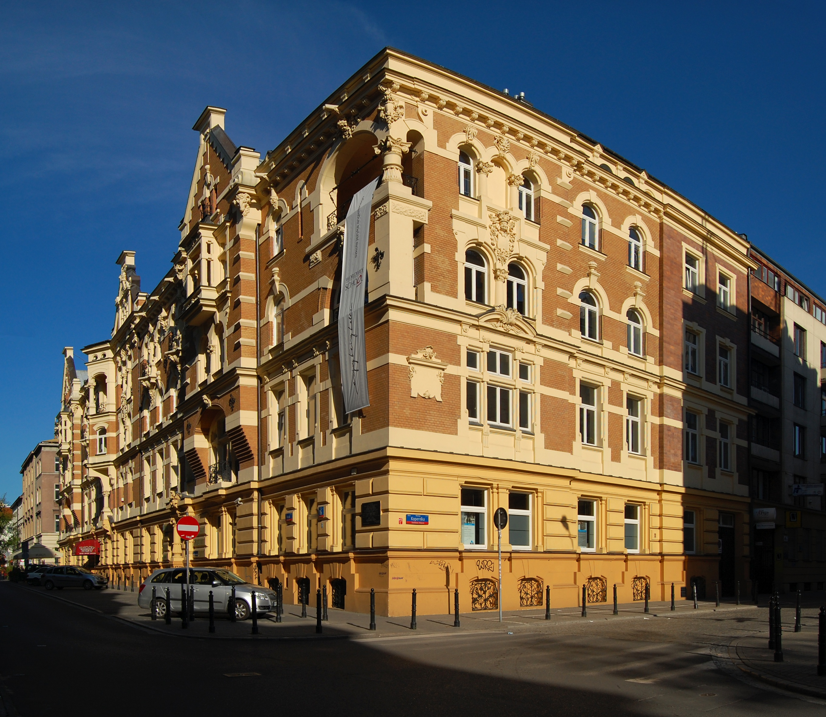 Tenement house in Foksal Street, Warsaw.